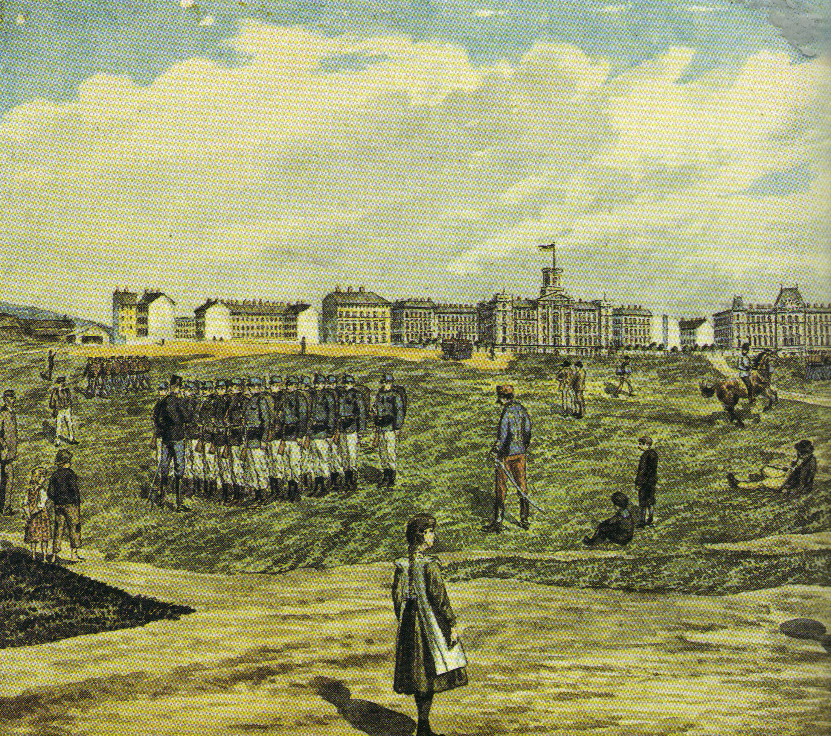 The Schmelz as a military exercise ground and place for play and strolling - Vienna. Northward view (section)